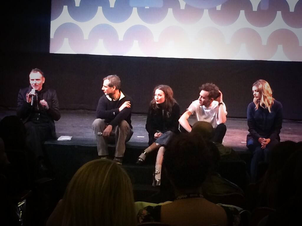 Olly Alexander, Emily Browning, Hannah Murray, Pierre Boulanger and Stuart Murdoch at the première of God Help The Girl, at the 2014 Sundance Film Festival.